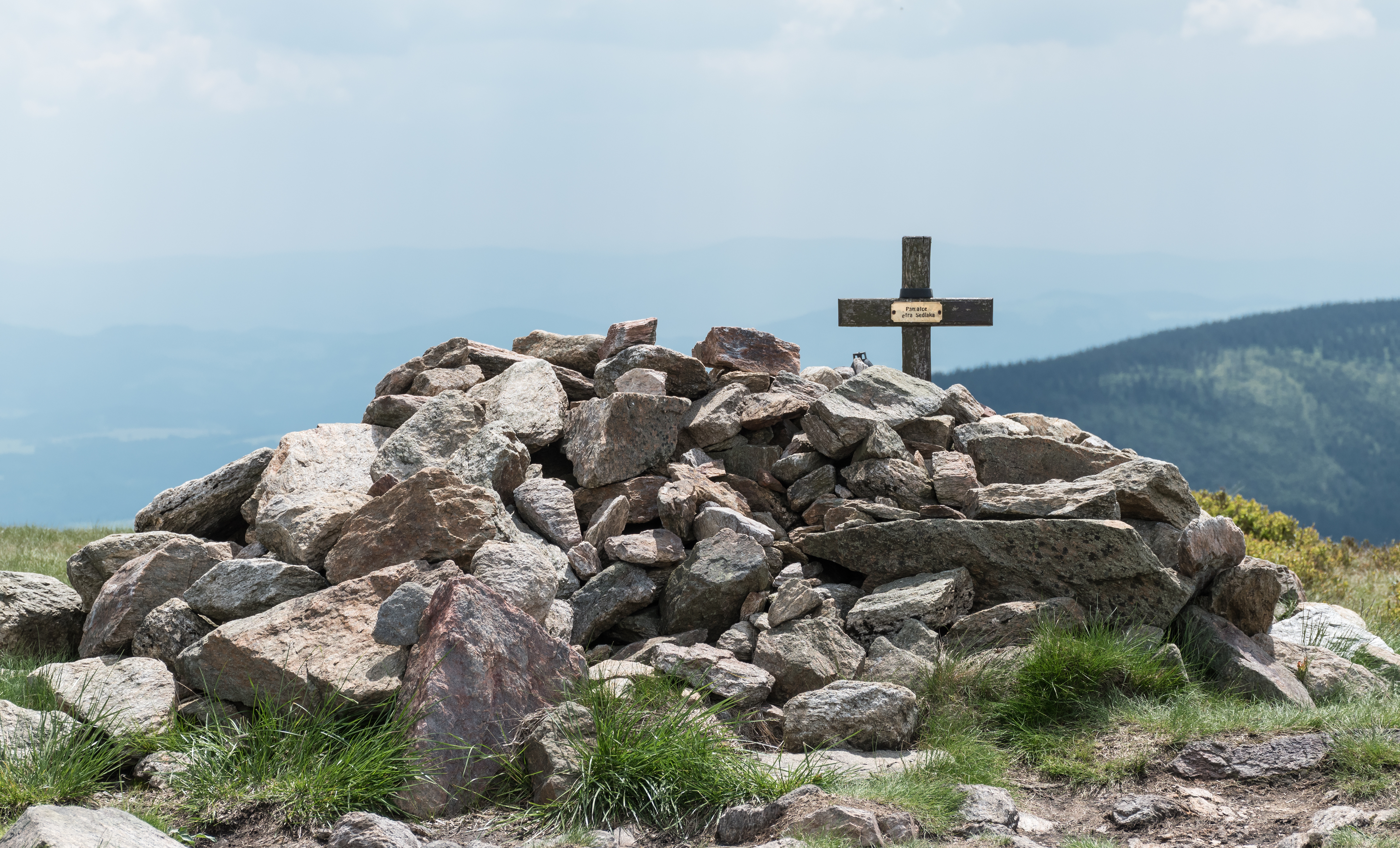 Top of Śnieżnik, Petr Sedlak memorial